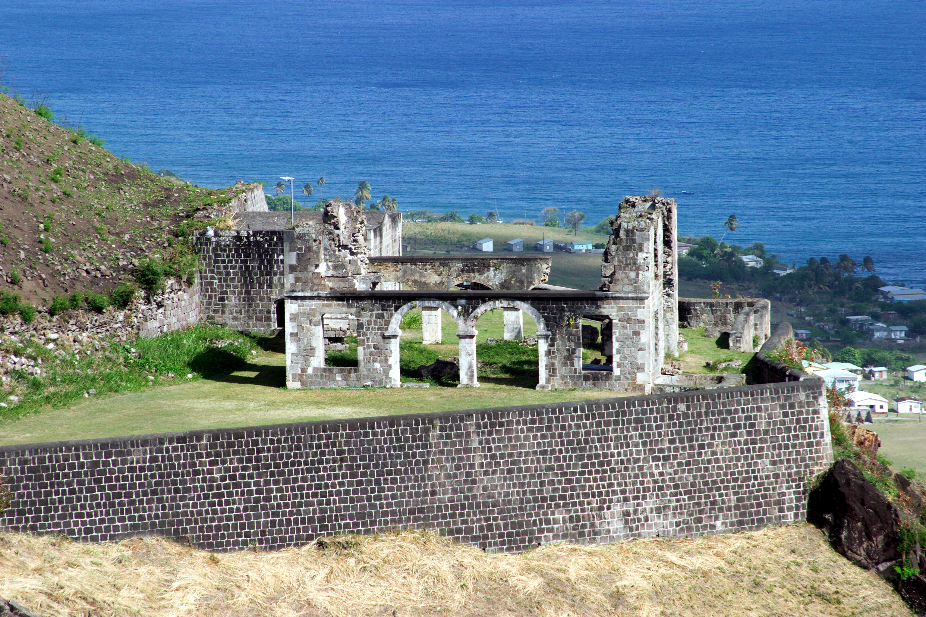 Brimstone Hill Fortress, St Kitts.